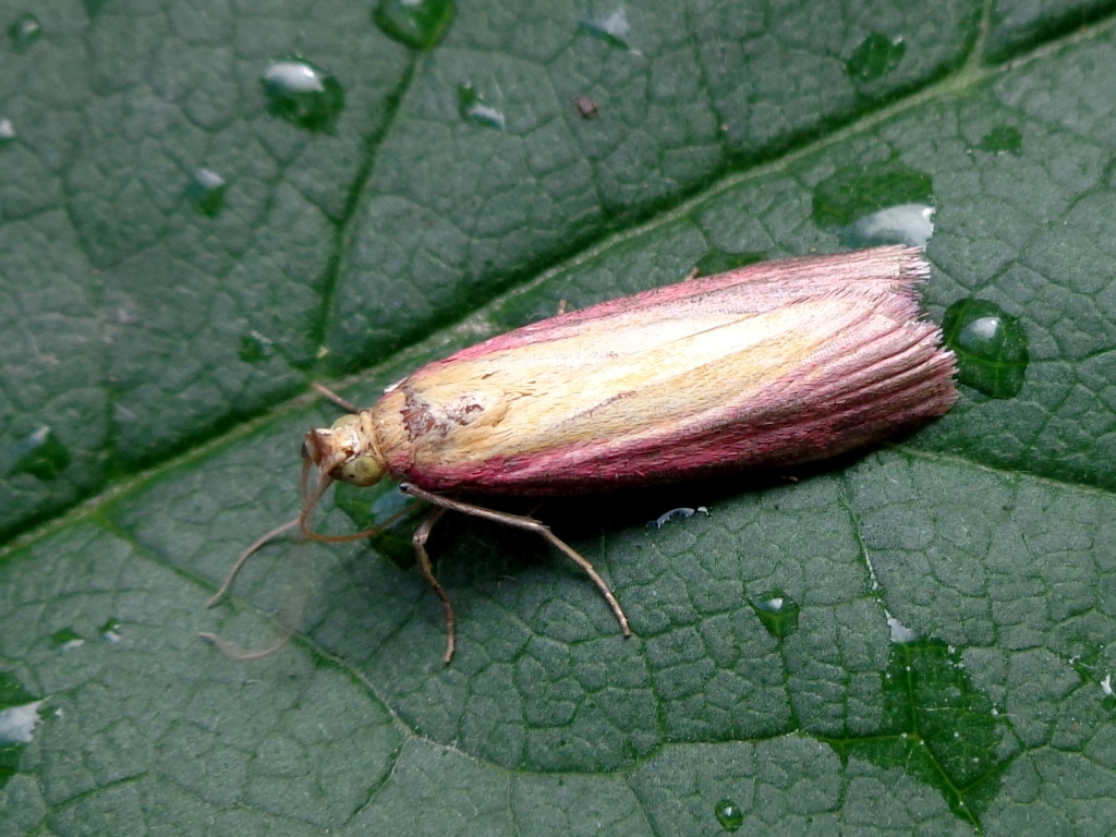 Oncocera semirubella. Found in Bērzi village near Bauska city, Latvia